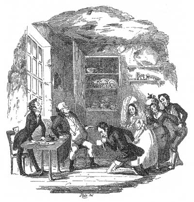 The Pickwick Papers: Mr Winkle's extraordinary return.